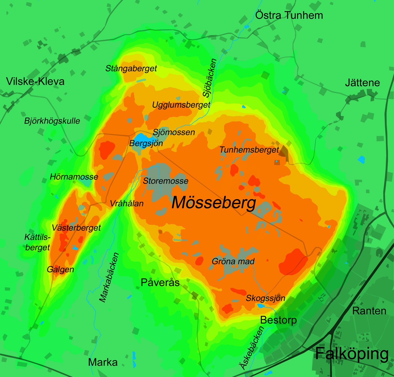 Map over Mösseberg, a table-mountain in Falköpings municipality, in the Falbygden area, Västergötland, Sweden. The mountain is situated NW of Falköping and belongs to the parishes Vilske-Kleva, Gökhem, Marka, Falköping, Friggeråker, Östra Tunhem, and Ugglum. Scale 1:20,000. Altitude is shown with different colours from green over yellow to red. The equidistance is 10 m. Green hues are under 280 meter above sea-level. Yellow 280-290 meter. Orange yellow 290-300 meter. Orange 300-310 meter. Orange red 310-320 meter. Red is above 320 meter. Lakes and brooks are blue. Bogs are (grey)blueish. Railway, roads, official buildings, populated areas, villages, and farms are different shades of grey. All parts of Mösseberg are named on the map.